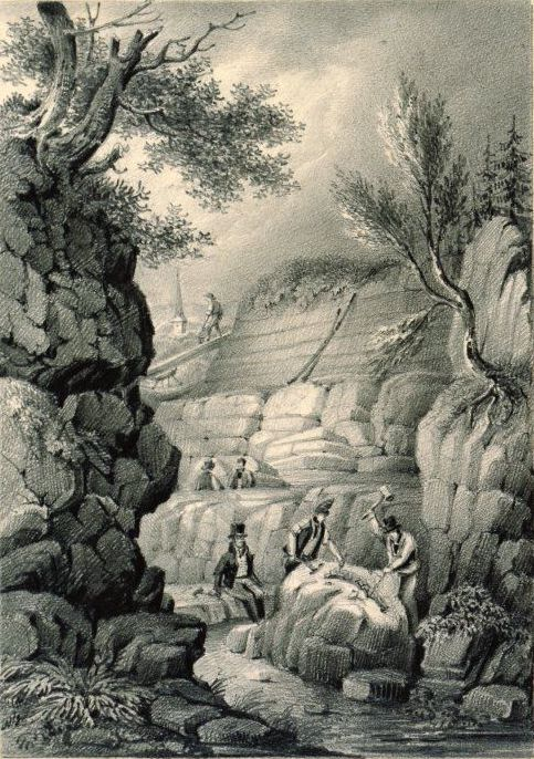 "Sketch of Tilgate Quarry with Gideon Mantell Overseeing the Uncovering of Fossils," pencil on card drawing, from a scrapbook, showing English paleontologist Gideon Mantell, dressed in top hall, overseeing two men exposing a fossil. Courtesy of the Andrew Turnbull Library.